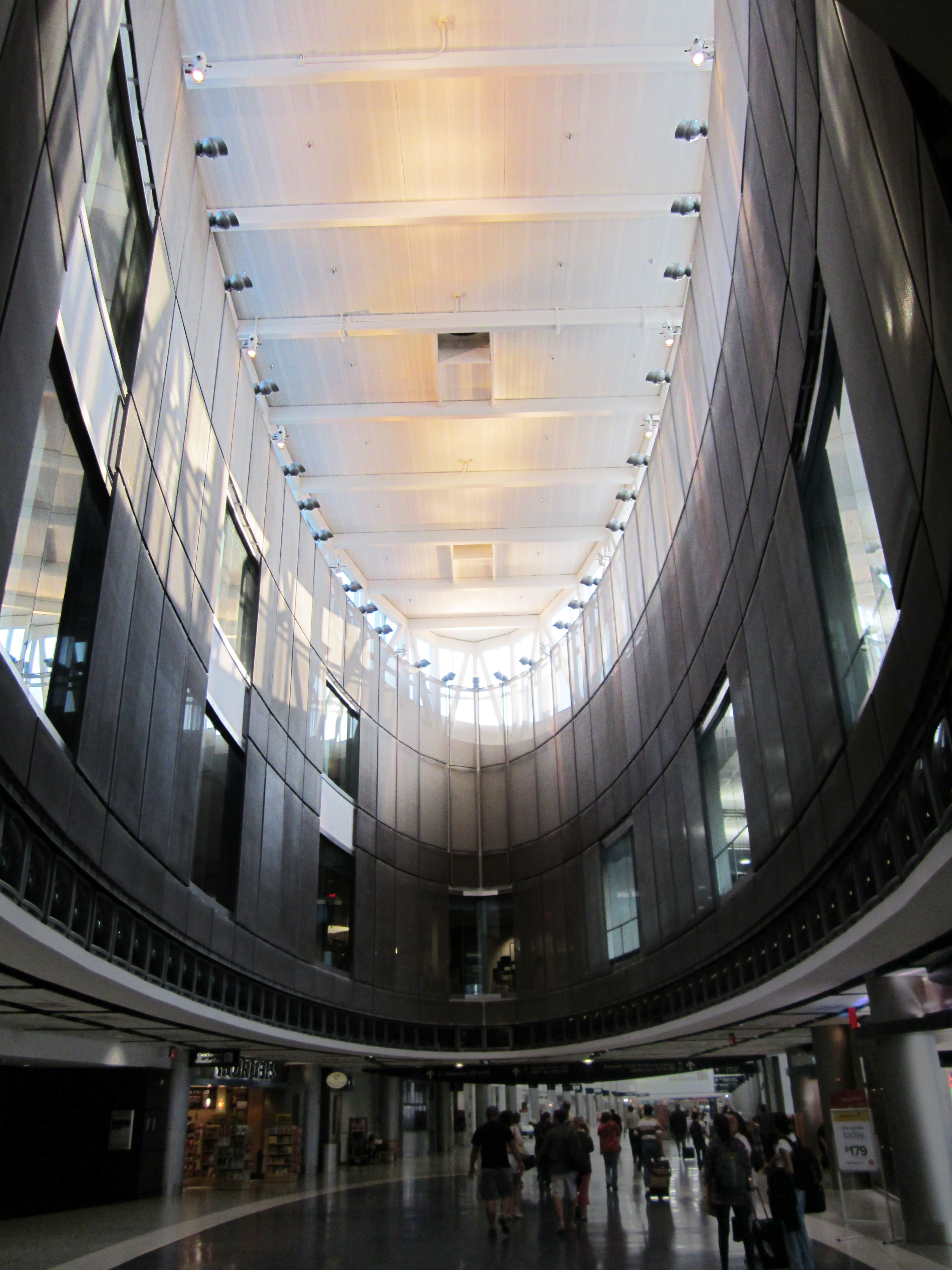 george bush airport terminal E